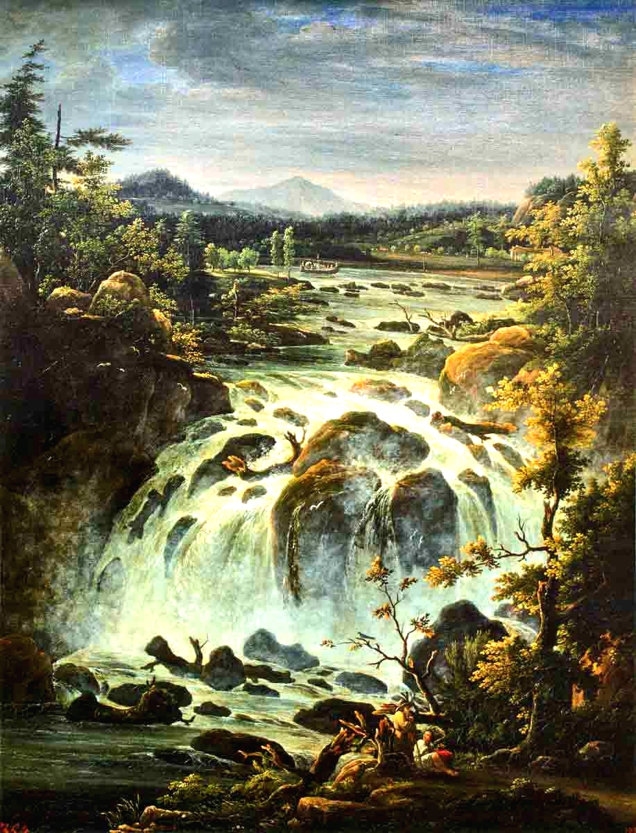 The Imatra Waterfall in Finland. 1819. Oil on canvas. State Russian Museum, Saint-Petersburg